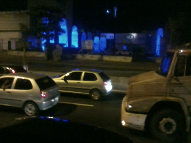 Avenida Brasil with heavy traffic during the night.